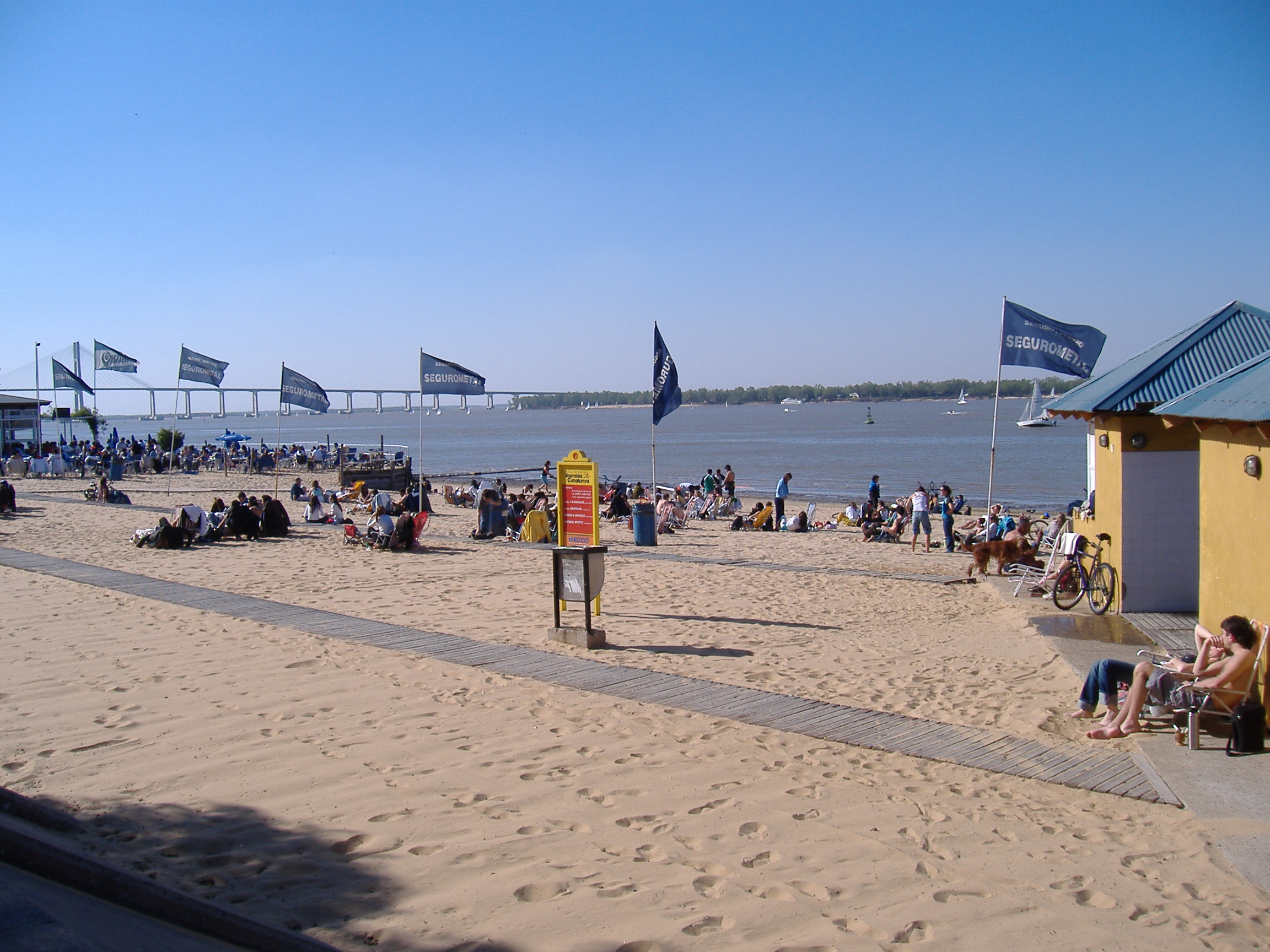 Public beach on the Paraná River, Rosario, Argentina, on an unusually warm winter afternoon. In the background, the Rosario-Victoria Bridge.